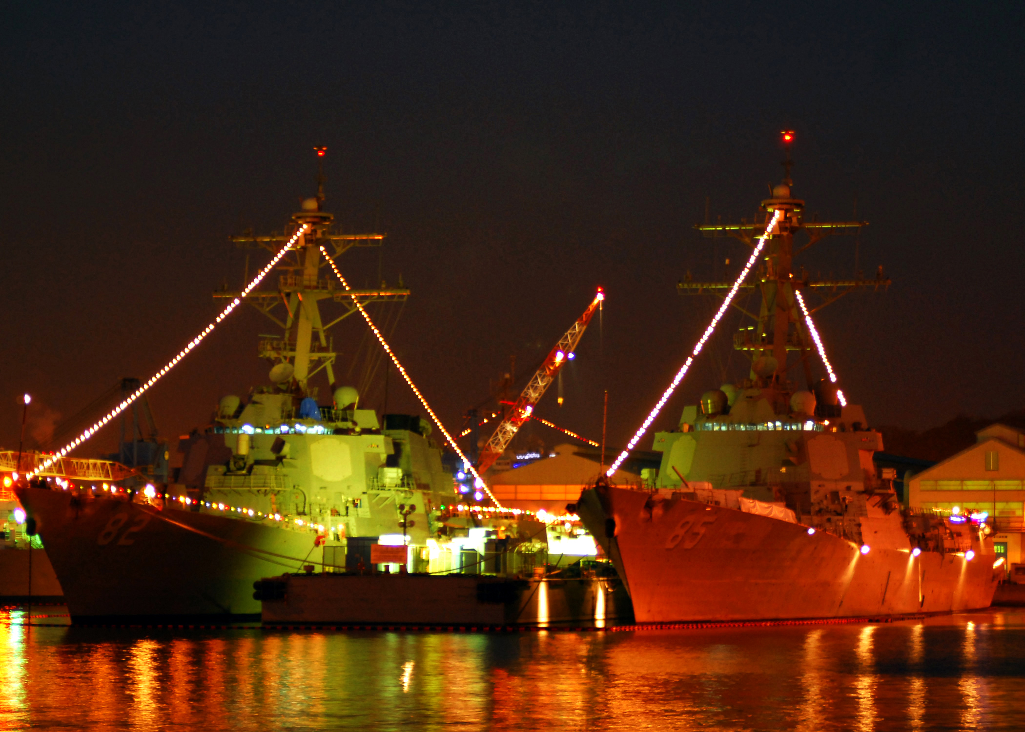 YOKOSUKA, Japan (Dec. 18, 2007) Holiday lights illuminate the Arleigh Burke-class guided-missile destroyers USS Lassen (DDG 82) and USS McCampbell (DDG 85) at Fleet Activities Yokosuka. Every Yokosuka-based ship of the forward-deployed naval forces is decorated with holiday lights to celebrate the festive season. Just before midnight on New Year's Eve, every ship will go black for a countdown to the New Year. At midnight, every ship will illuminate its holiday lights to bring in the New Year. U.S. Navy photo by Mass Communication Specialist Bryan Reckard (Released)